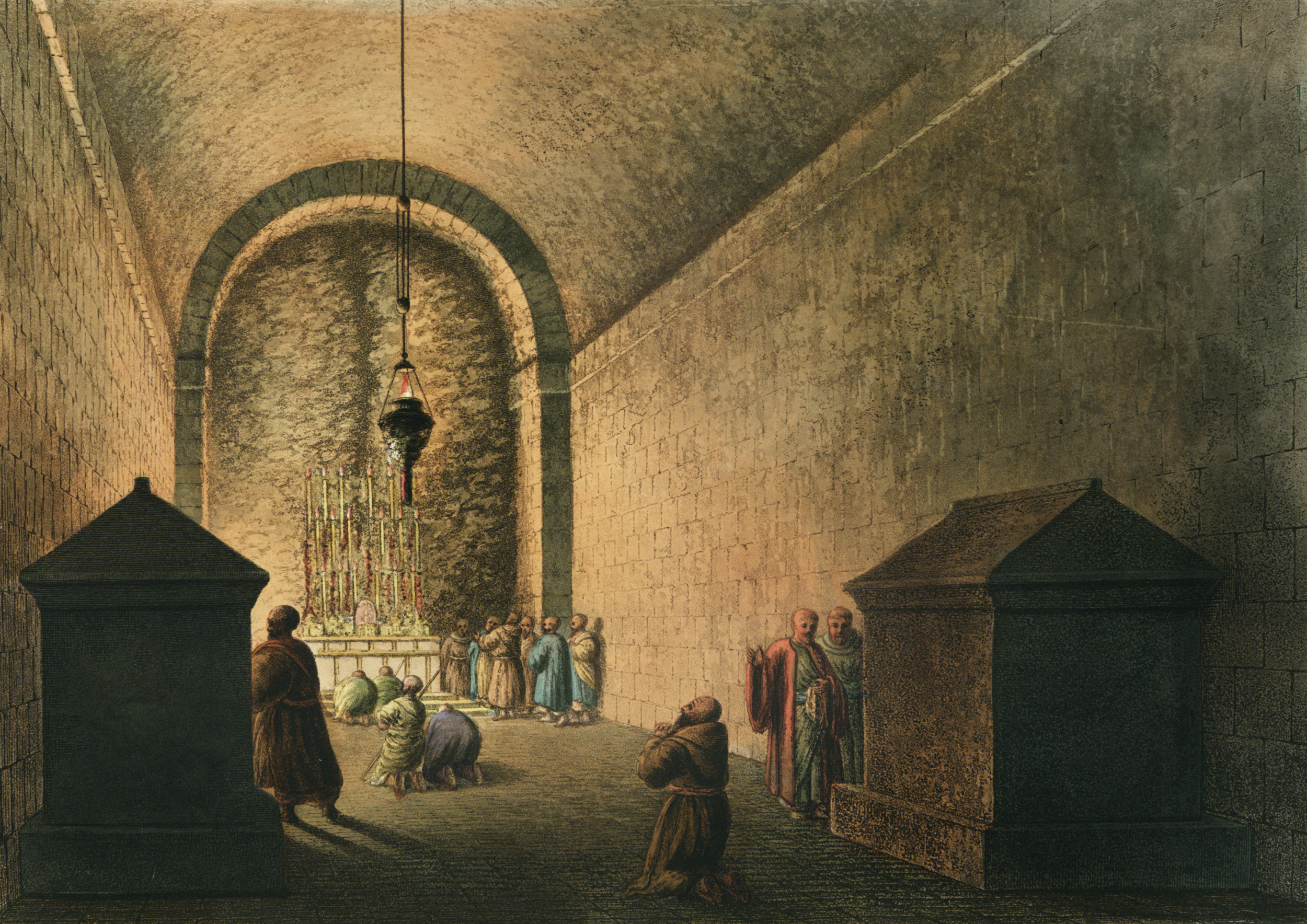 Chapel of Mount Calvary from Views in the Ottoman Dominions, in Europe, in Asia, and some of the Mediterranean islands (1810) illustrated by Luigi Mayer (1755-1803).